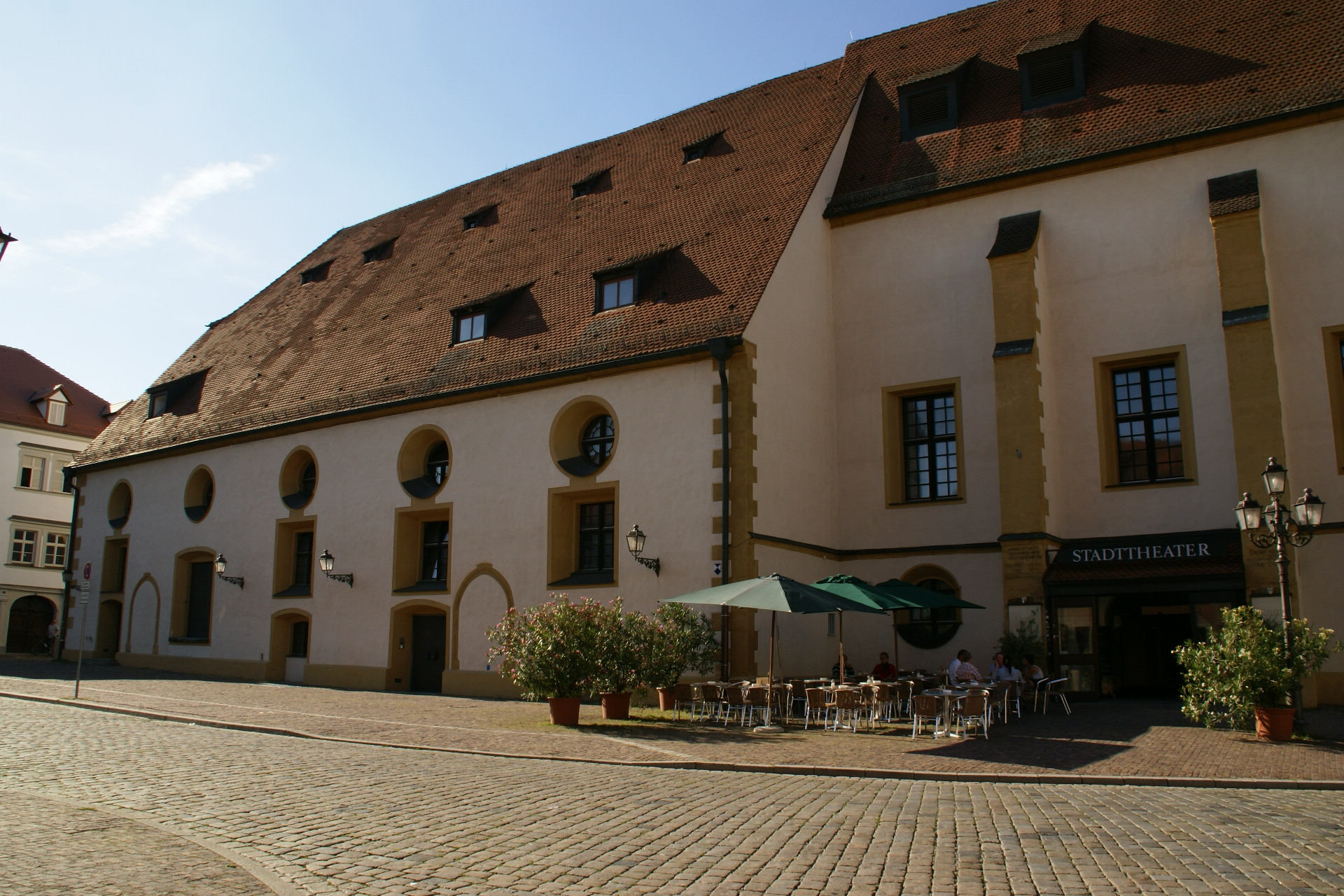 City Theater at Franziskanergasse in Amberg, Germany